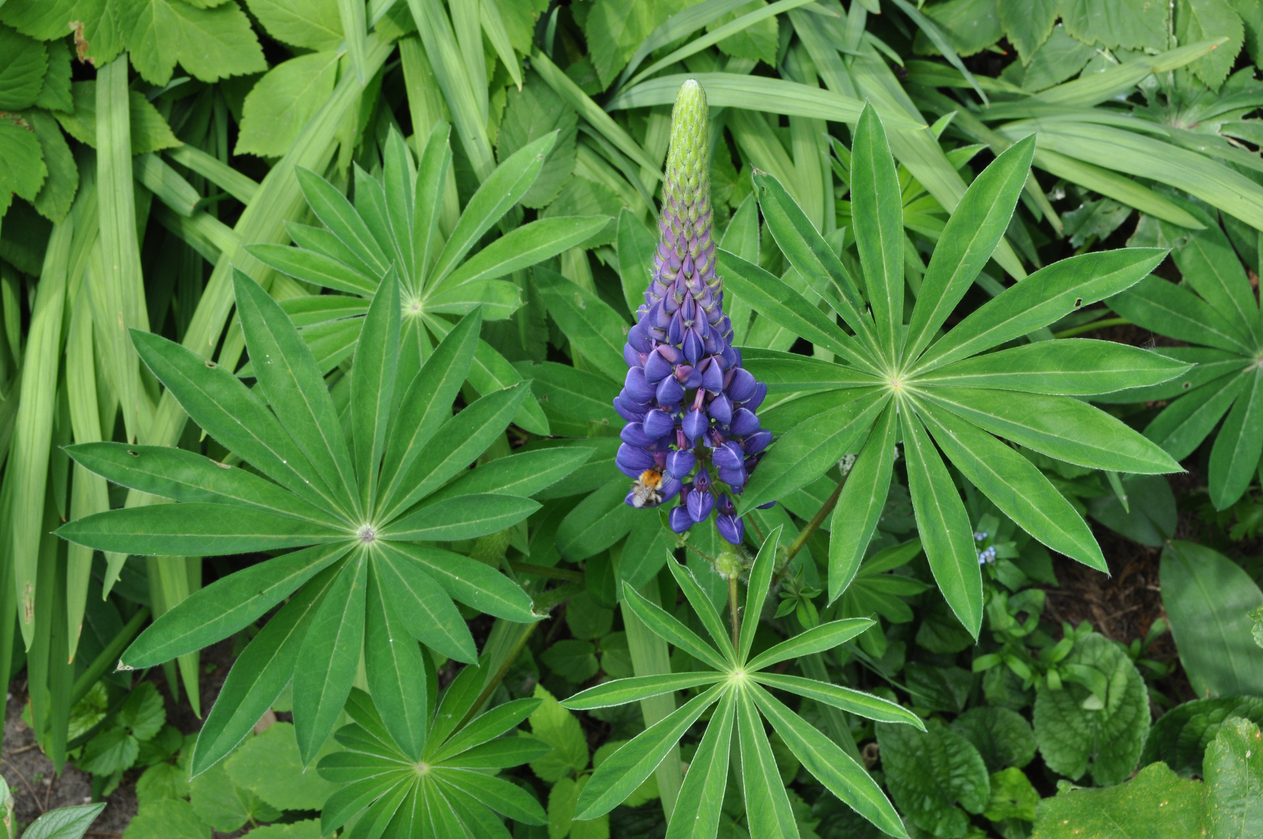 Lupin Lupinus